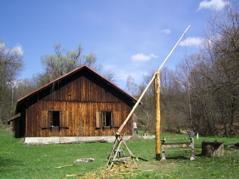 Photo of mountain hostel "Chatka Malucha" (owned by AKT Maluch, situated in Ropianka village, Beskid Niski) during it's reconditioning.